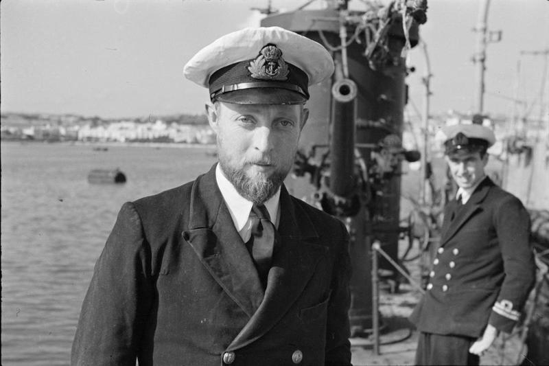 Sidelights on the Submarine Service. 26, 27 and 28 January 1943, Malta. Lieut H B Turner, RN, Captain of HMS UNRIVALLED (ex-P45).